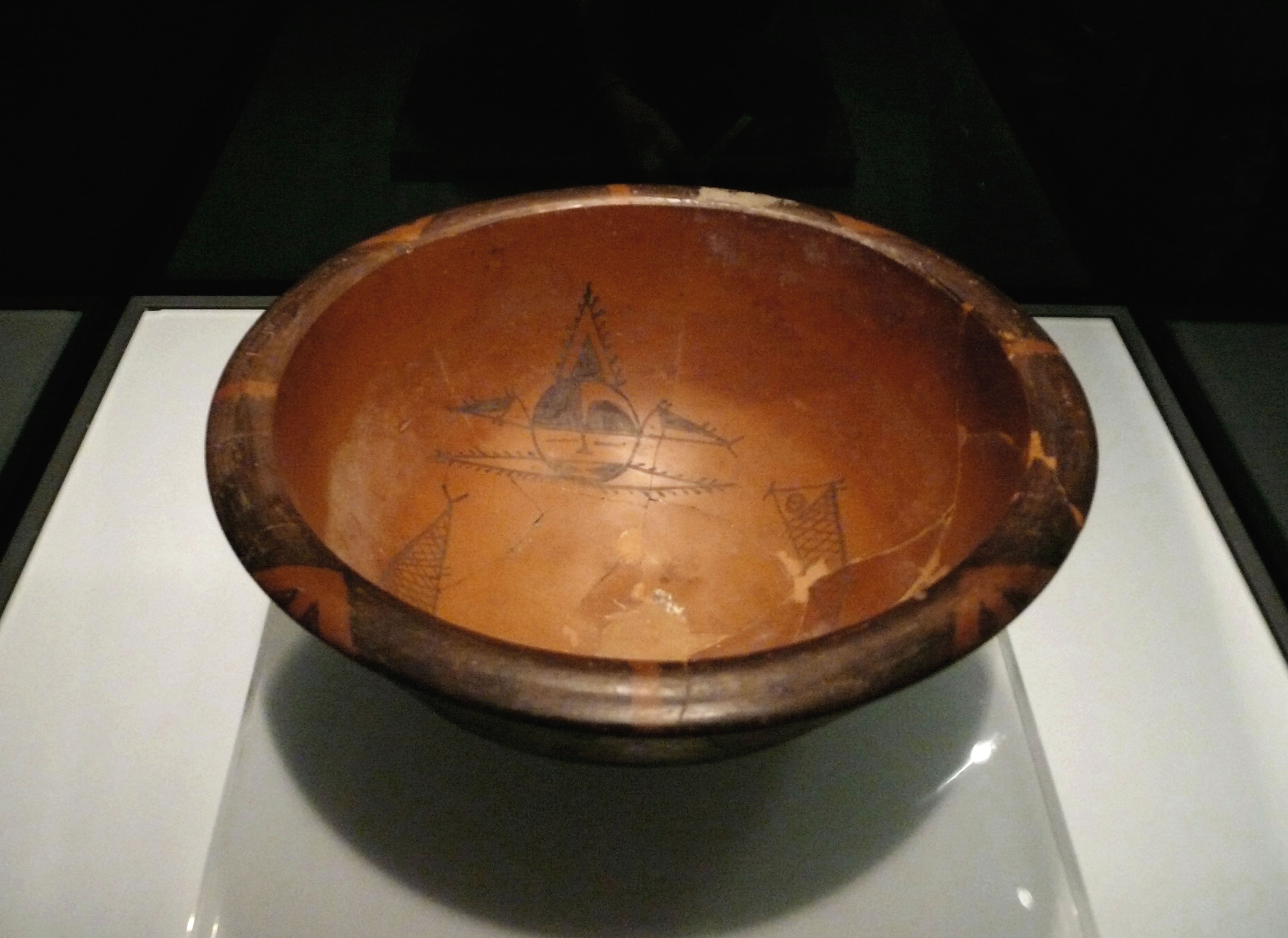 Human faced fish decoration pottery bowl. Yangshao Culture, Banpo style (4800-4300 B.C.) Archaeological site : Shaanxi. Capital Museum, Beijing, China.